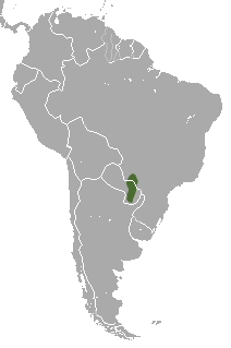 Long-tailed Fat-tailed Opossum (Thylamys macrurus) range